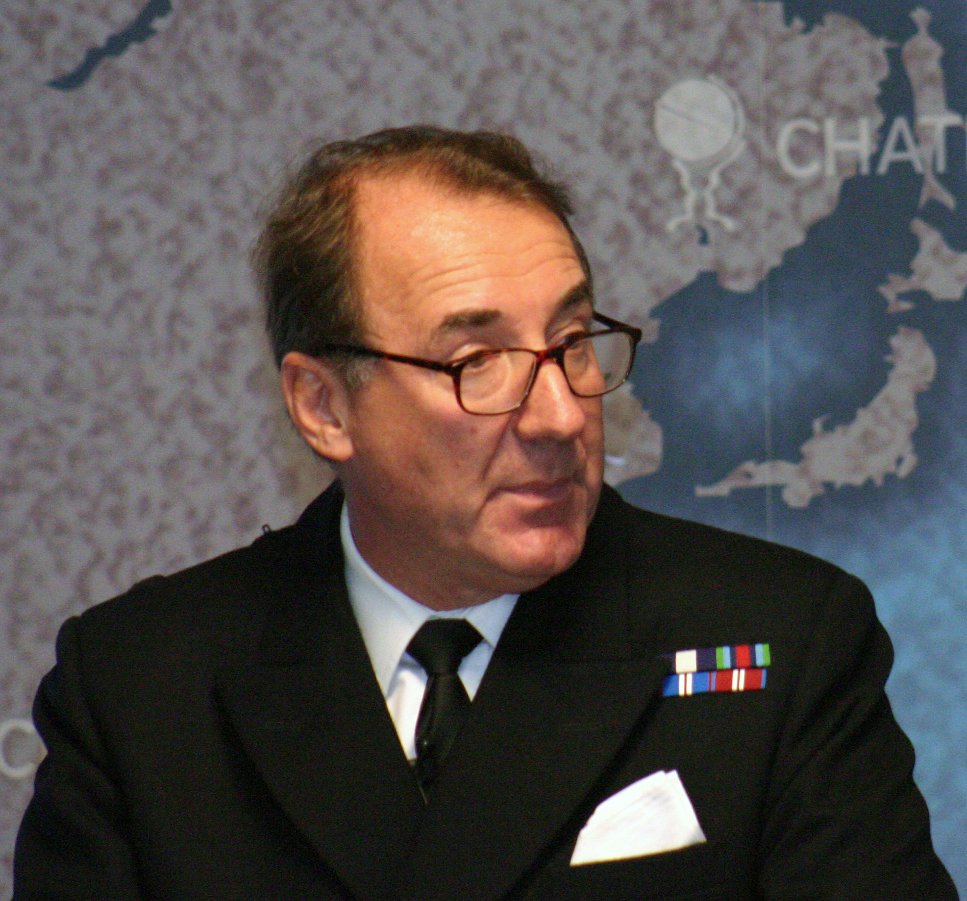 Admiral Sir George Zambellas, KCB, DSC Fleet Commander, Royal Navy and Commander Allied Maritime Command, Northwood at the event A New Era in Maritime Security?: Risks, rules and responsibilities, 22-23 October 2012